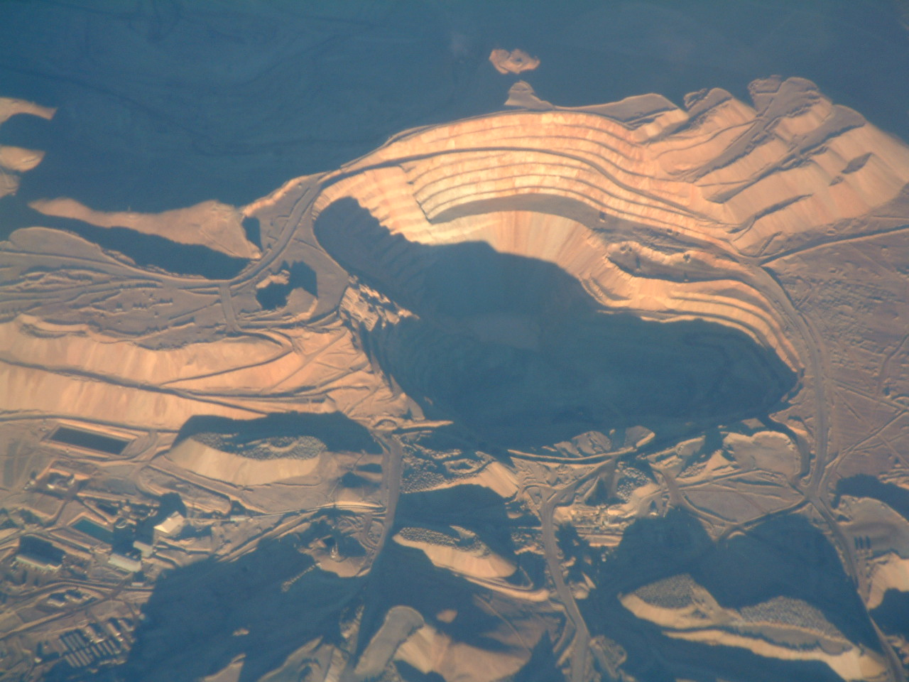 Aerial photograph of one part of the Chuquicamata copper mine (the worlds largest copper mine, and one of the largest open pit mines in the world).